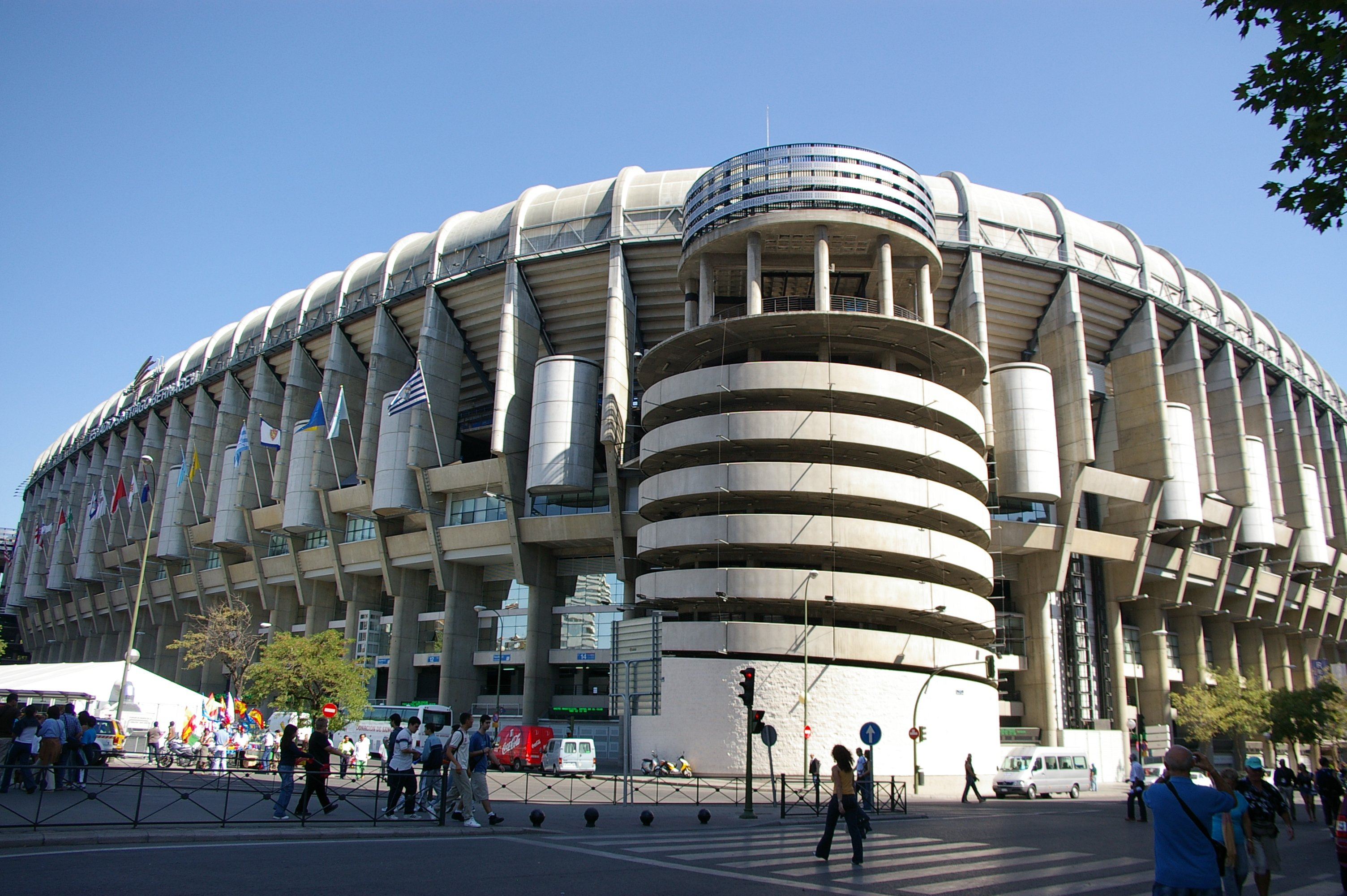 Vista exterior del estadio Santiago Bernabeu. External view of the Santiago Bernabeu Stadium.